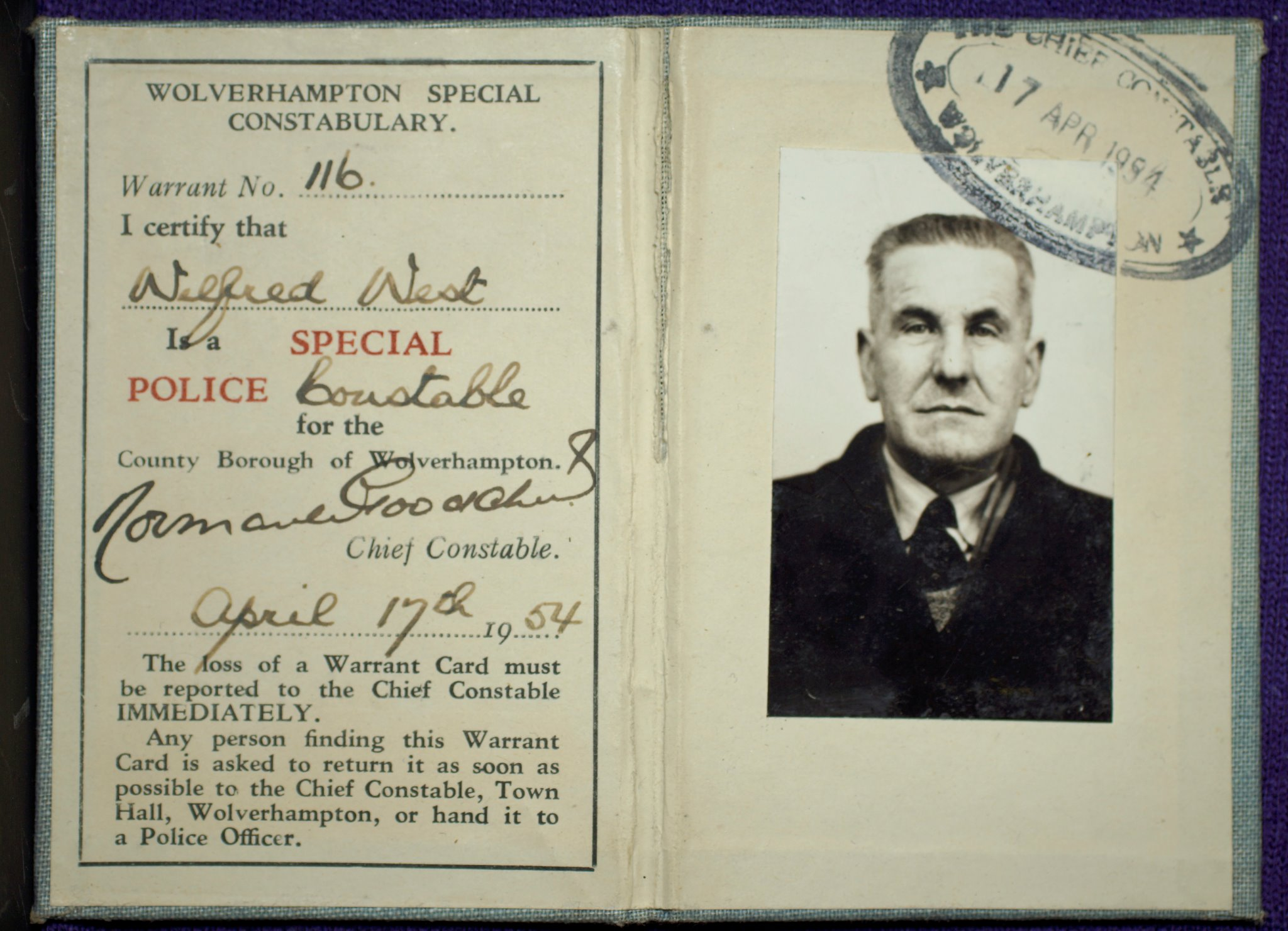 West Midlands Police Museum